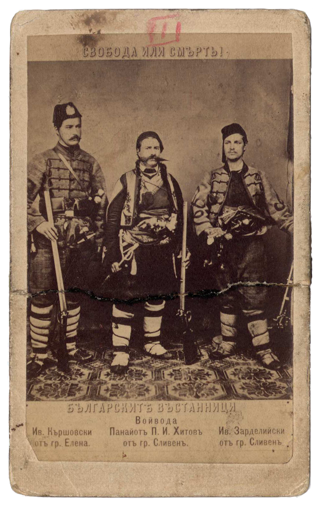 Ivan Poptodorov Kǎrshovski, Panayot Hitov and Ivan Zerdeliyski, Belgrade, 1868.